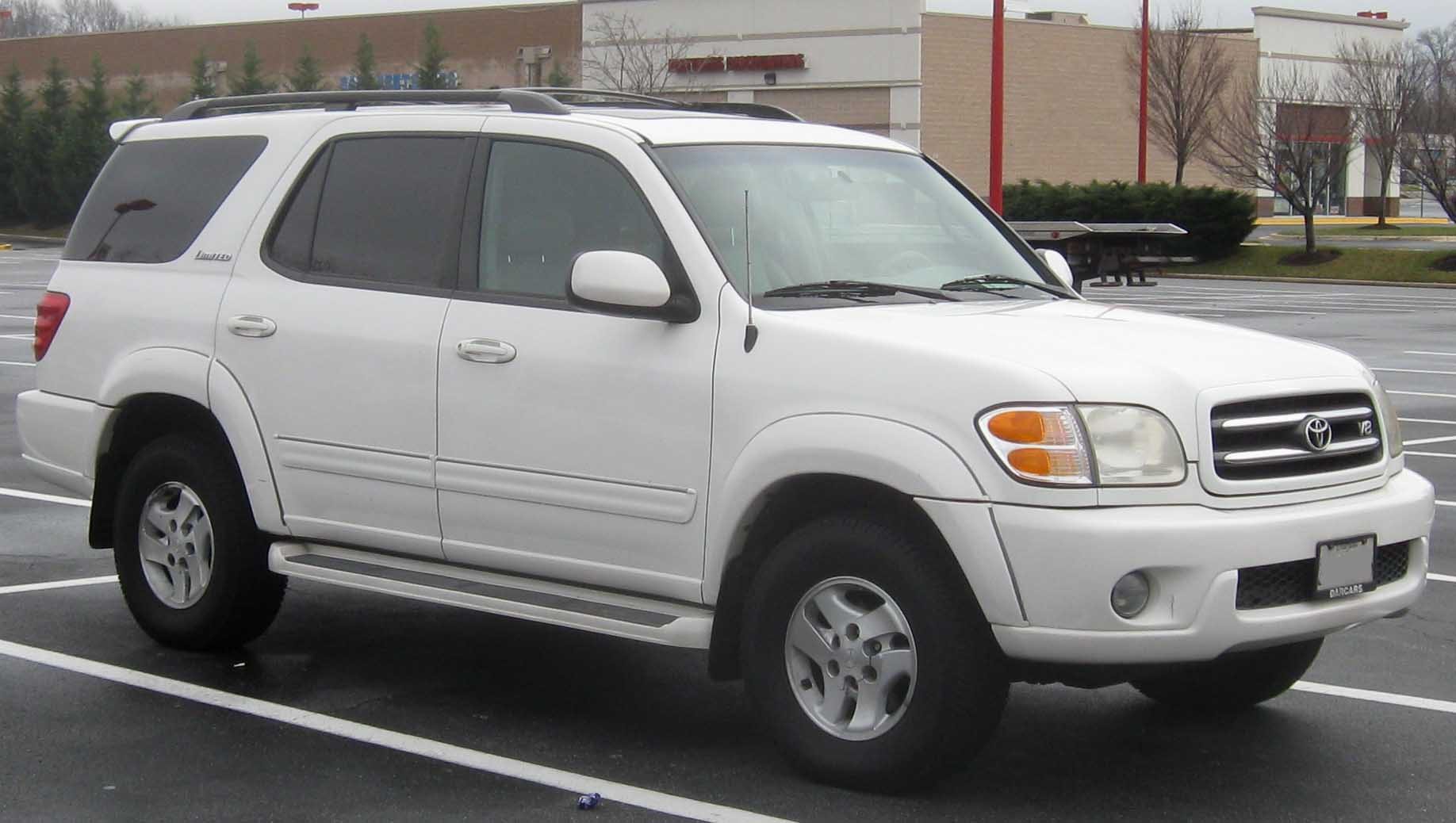 2001-2004 Toyota Sequoia photographed in Largo, Maryland, USA.